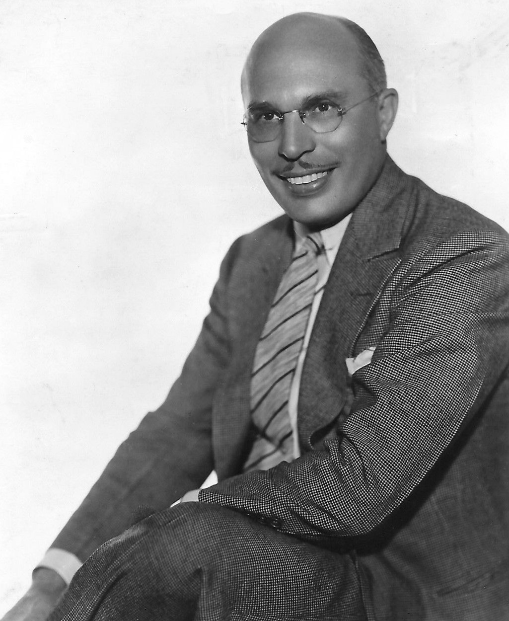 Photo of musician and bandleader Ace Brigode in 1938.